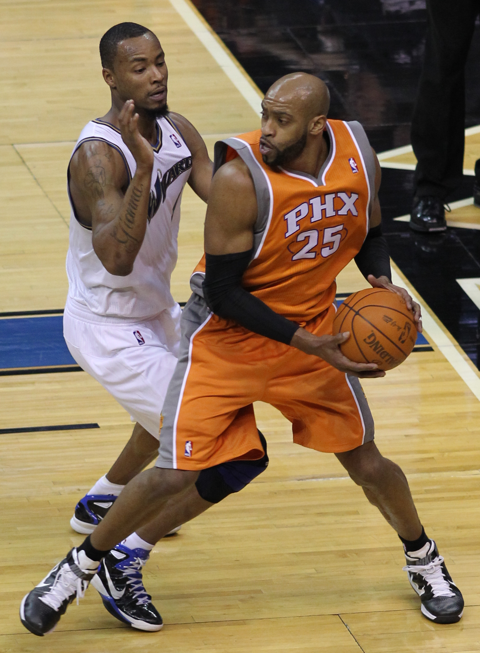 Washington Wizards v/s Phoenix Suns January 21, 2011